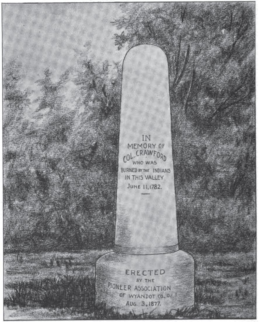 Artist's rendition of the Col. Crawford Burn Site Monument, located along Tymochtee Creek southeast of Crawford in Crawford Township, Wyandot County, Ohio, United States. Erected in 1877, the monument is listed on the National Register of Historic Places.